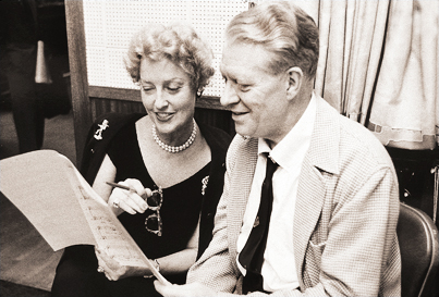 Jeanette MacDonald and Nelson Eddy reviewing sheet music in the recording studio in the late-1950s